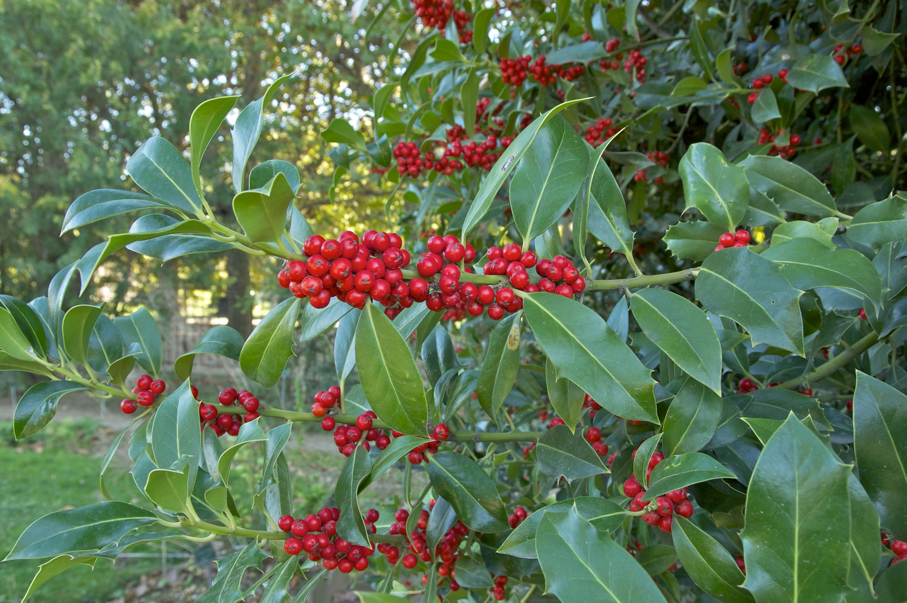 Ilex aquifolium L. (European holly). Jardin des Plantes, Paris.